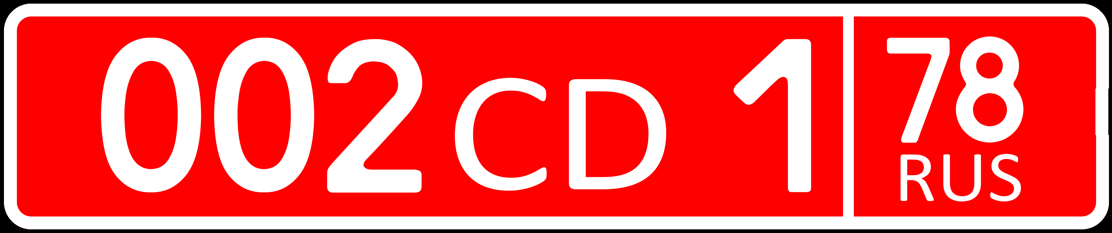 Russian license plate for diplomatic vehicles. 3rd version.